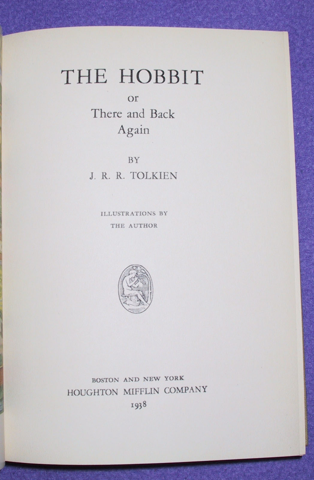 Title page of second printing of first American edition of The Hobbit Photographed 29 August 2004 by Daniel R. Strebe